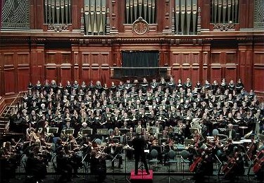 MUCS singing Carmina Burana